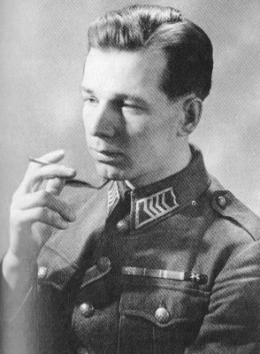 Finnish Staff Sergent Mikko Pöllä. He received the Knight of the Mannerheim Cross on 1 August 1943.